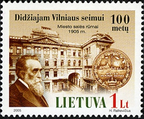 Stamps of Lithuania, 2005